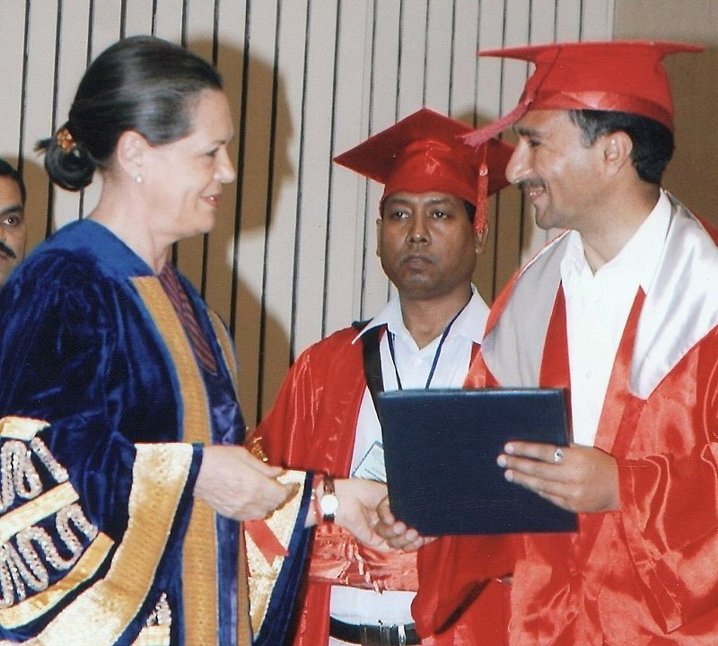 Shmt. Sonia Ghandi Ji & Dr. Amjad in Convocation at Vigyan Bhavan, New Delhi